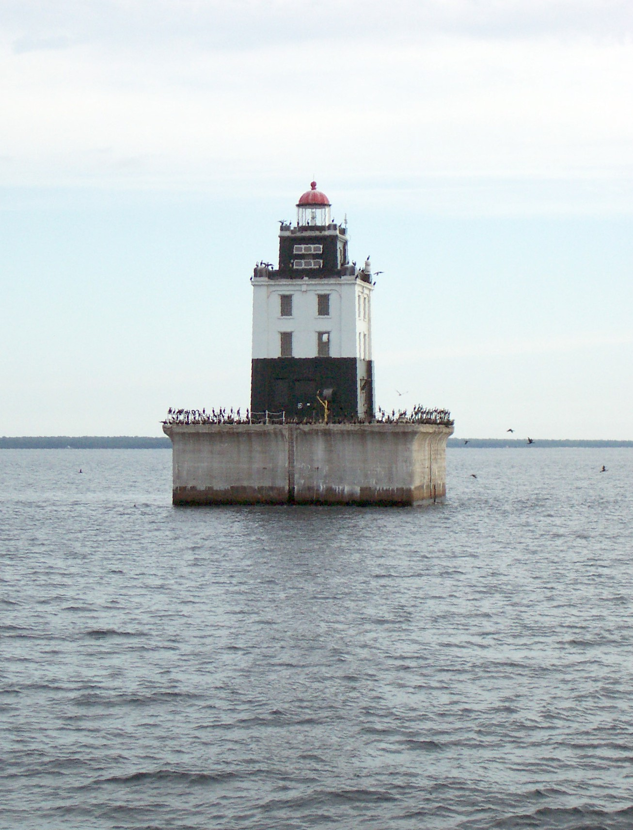 Poe Reef Lighthouse, northern Lake Huron north of Cheboygan, Michigan, USA